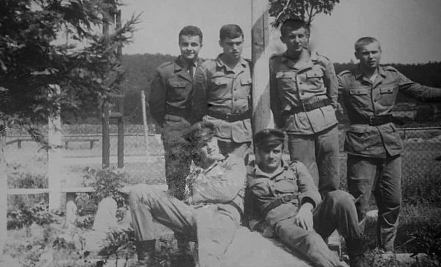 Border Protection Forces in Pokrzywna